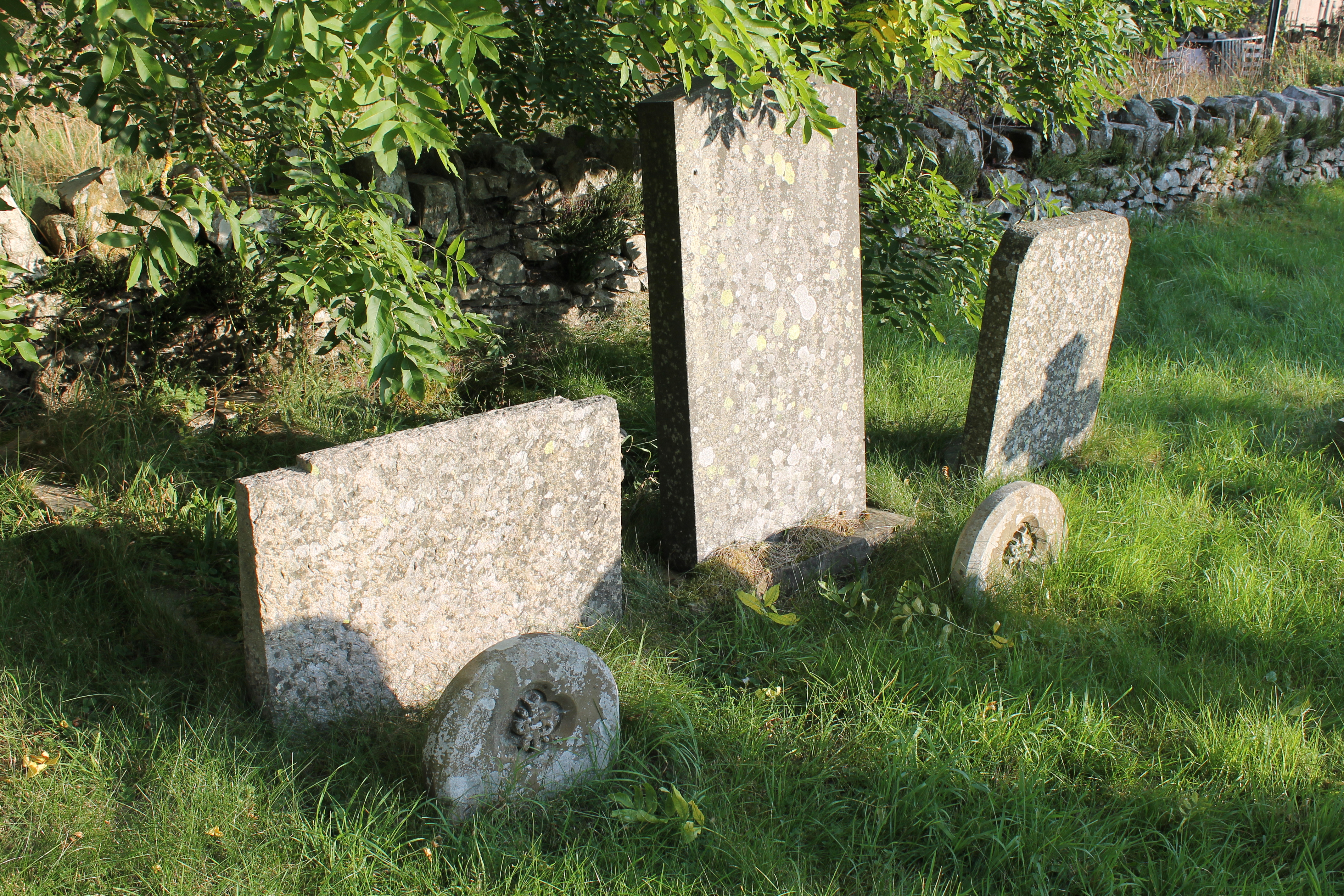 St. Thomas Church Penybontfawr, Powys. Built 1855. Grade II listed building.